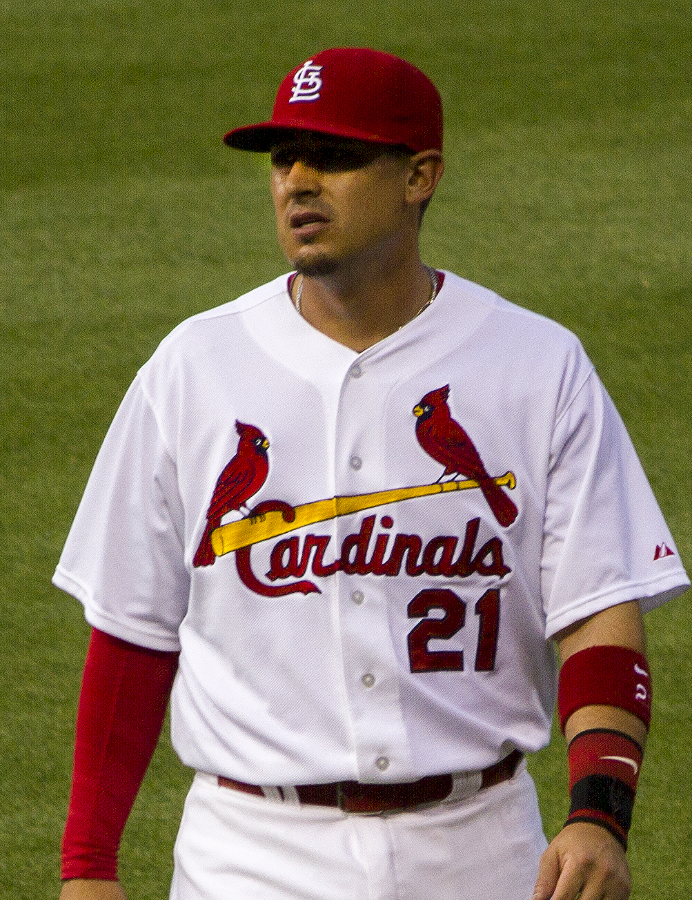 Allen Craig of the St.Louis Cardinals 2014